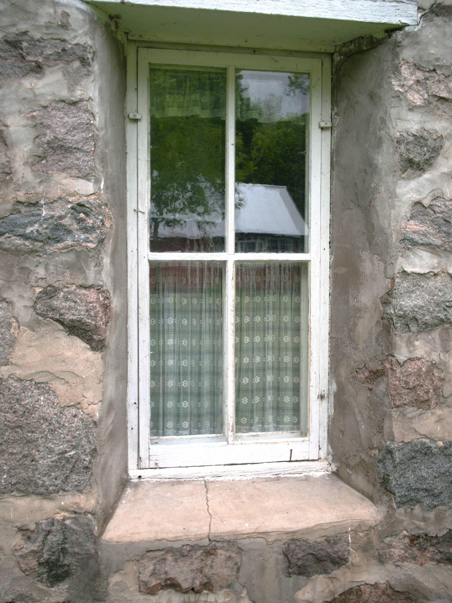 Photo I took 2006-05-21 of a window in an 1895 Iowa farmhouse. CC & GFDL.